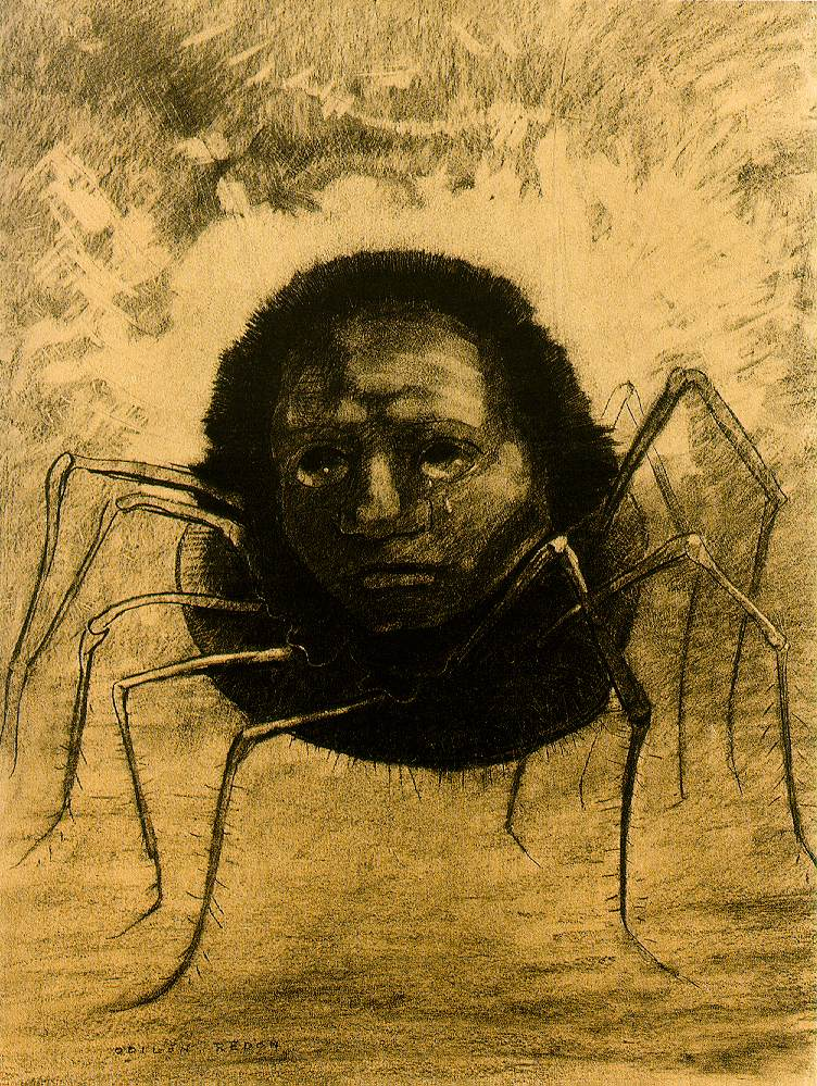 is a half-human half-monster creature, it looks like a spider crying, she is sad, she has a man's head and twelve feet, it is black in a white room, yellow